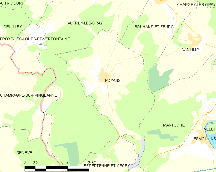 Map of French municipality